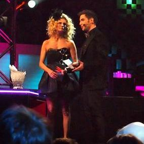 Hosts Måns Zelmerlöw and Christine Meltzer during the rehearsals of Melodifestivalen in Sandviken, Sweden